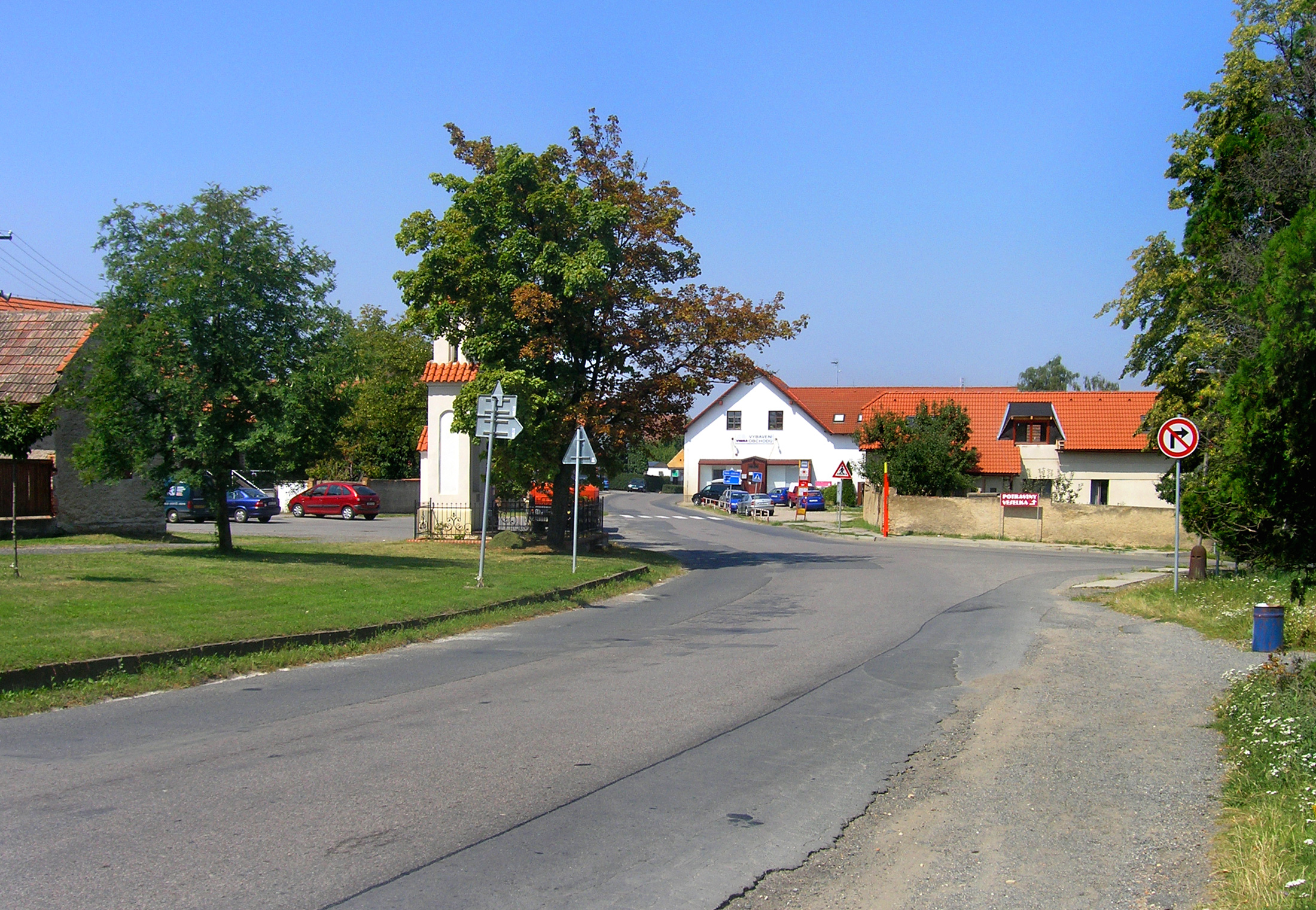 Common in Sibřina. Czech Republic